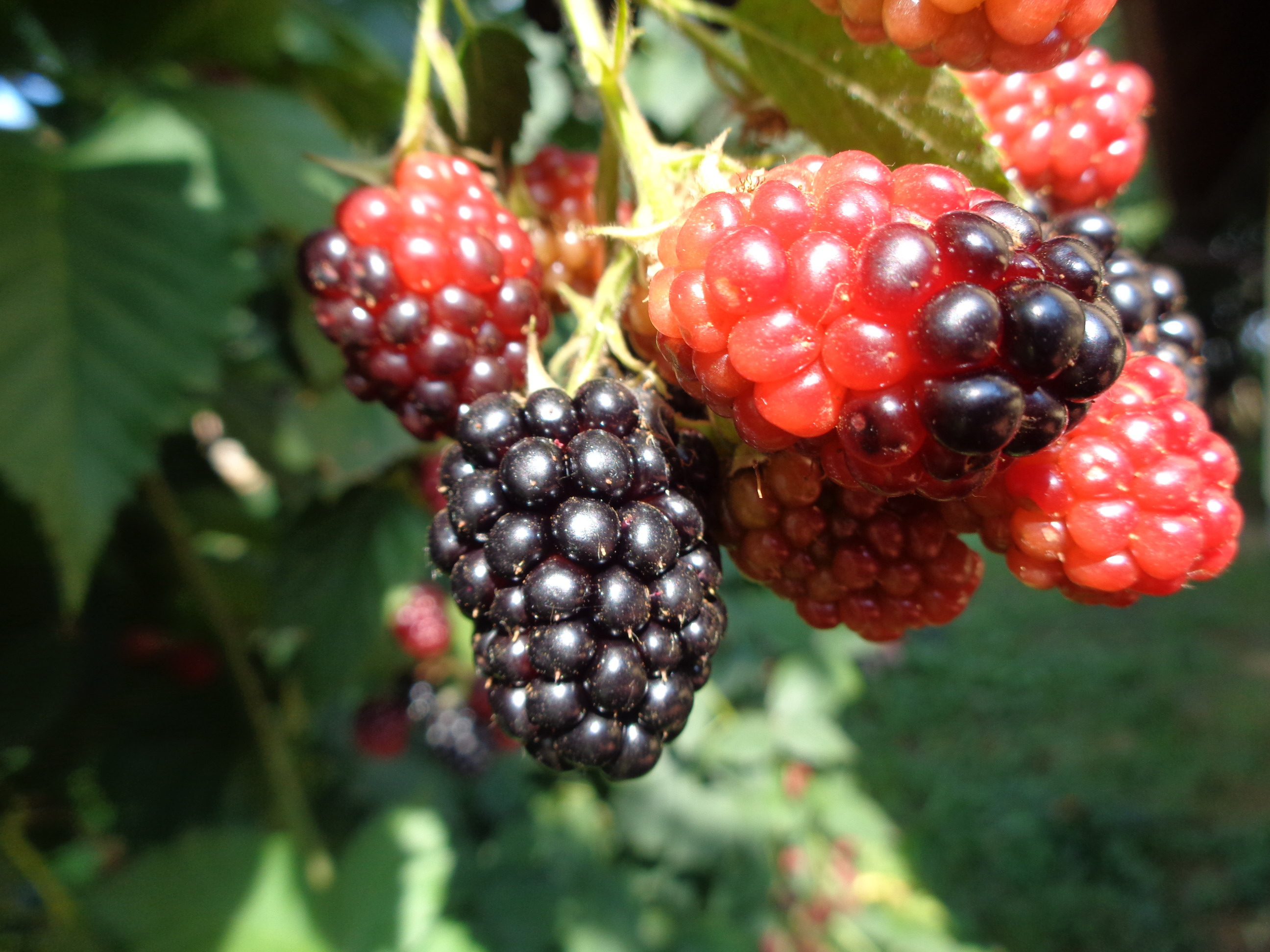 Blackberries, grown in Medjimurje County, northern Croatia, ripening on stemsHrvatski: Kupine, uzgojene u Međimurskoj županiji, sjeverna Hrvatska, dozrijevaju na stabljici